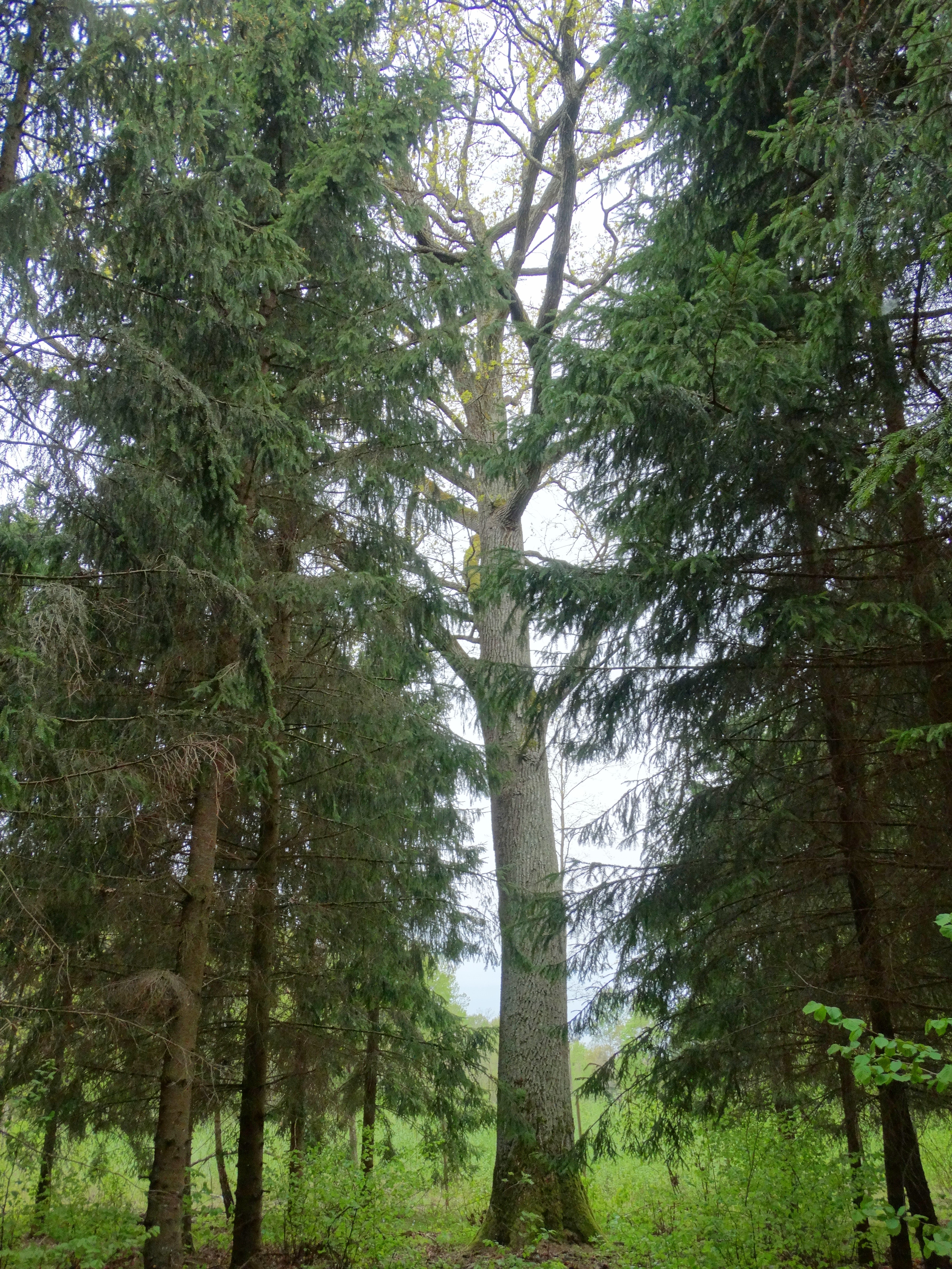 Šilai, oak, Pakruojis District, Lithuania